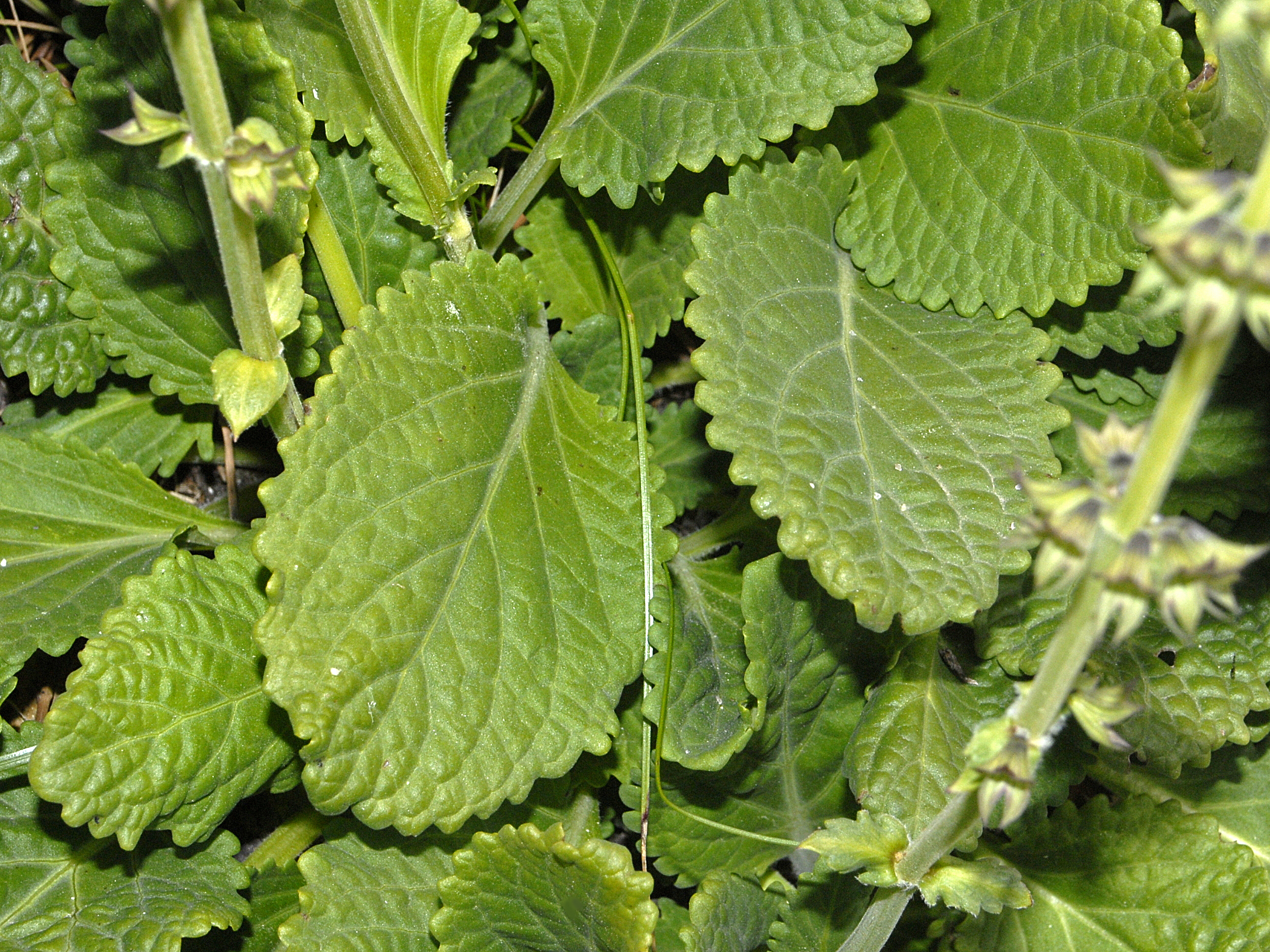 Leaves of Horminum pyrenaicum at the Giardino Botanico Alpino Chanousia